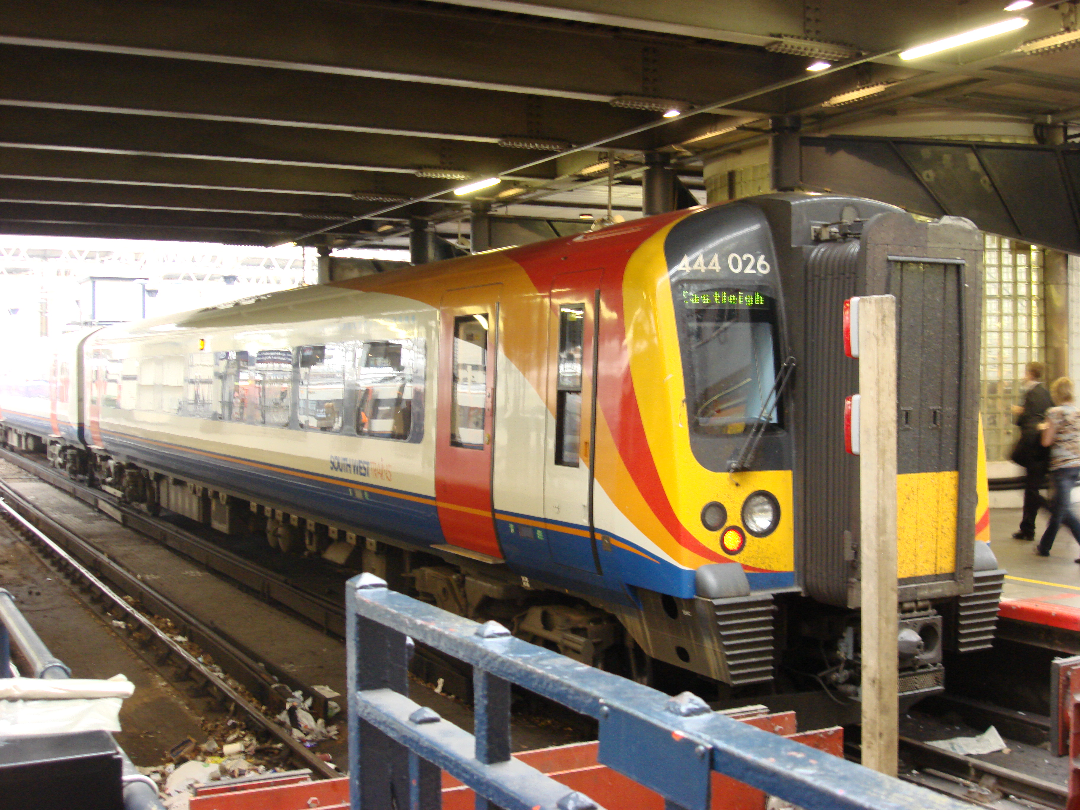 444026 at Waterloo Station